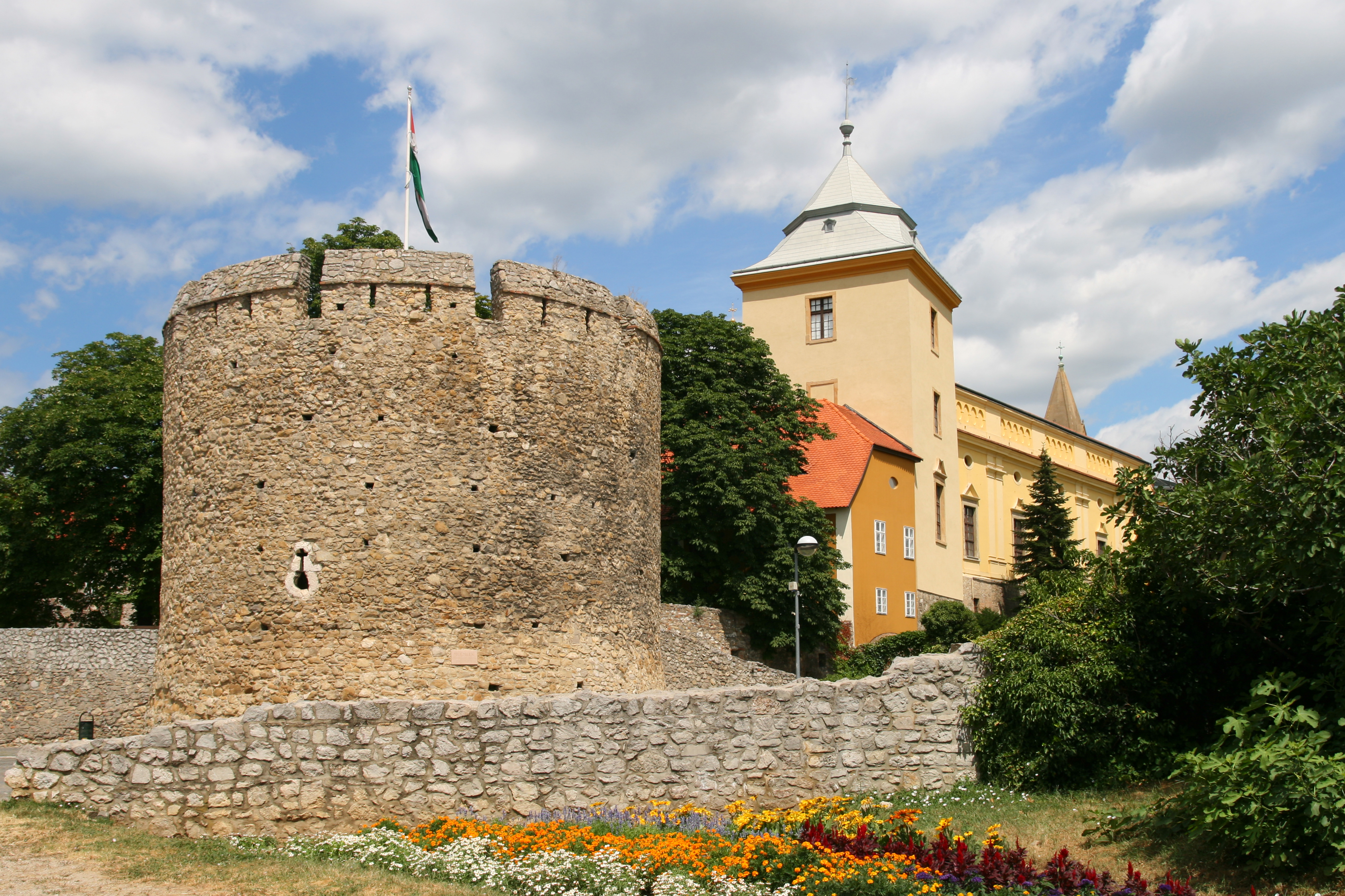 Castle in Pécs (Hungary).